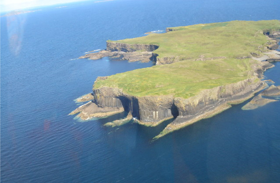 Aerial view of Staffa from the south Staffa.